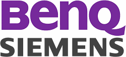 BenQ Siemens Logo